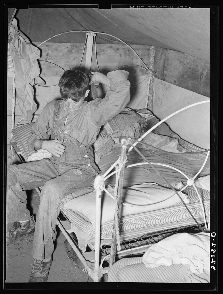 Son of white migrant worker putting on overalls in tent near Harlingen, Texas. See 32108-D